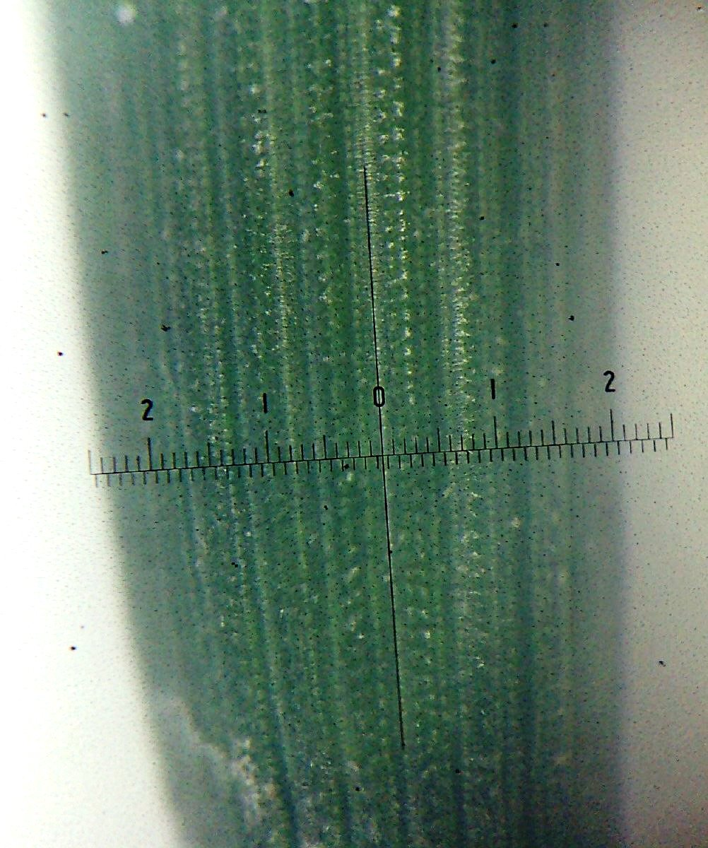 The surface of Equisetum hyemale in Japan, use as traditional polishing material like sandpaper. Microscopic view of Equisetum hyemale in Japan 2-1-0-1-2 is one millimeter step, with 1/20th graduation, approx. 4.5 mm outer diameter.